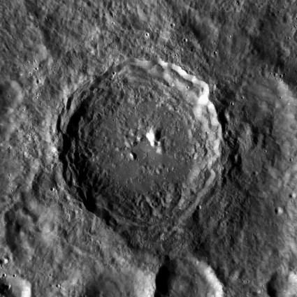 Olcott lunar crater - LROC image